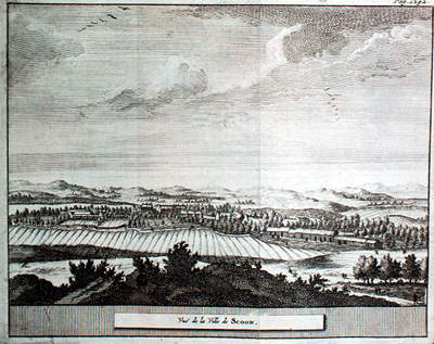 Historical view of the Schottisch village Scone